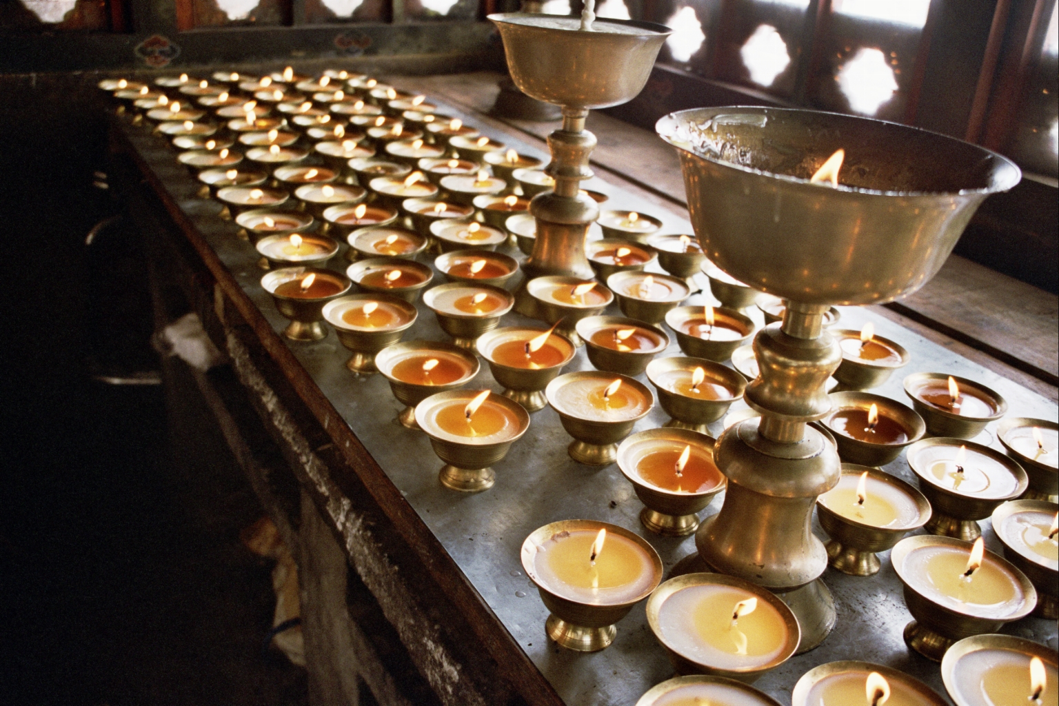 butter lamps at Tango Monastery, Thimphu valley, Bhutan. Copyright (c) 2002 William L. Devanney